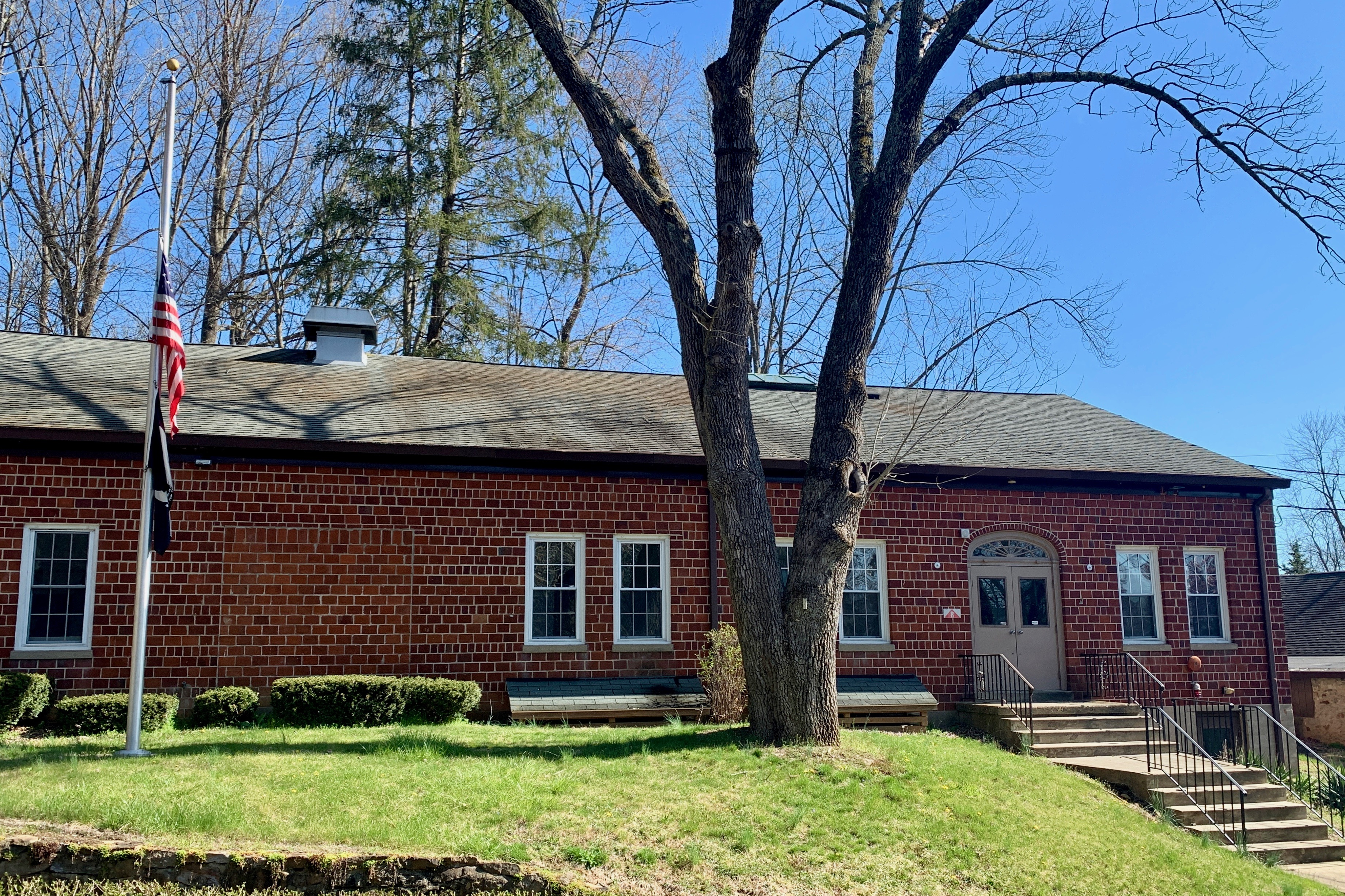 Former research laboratory in Bowerstown, New Jersey. Contributing property #13 in the Bowerstown Historic District. Built by Consumers' Research in circa 1939–40, Colonial Revival style.